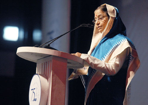 President of India, Pratibha Patil, is seen here speaking at The Doon School during the school's Platinum Jubilee celebrations in October 2010.